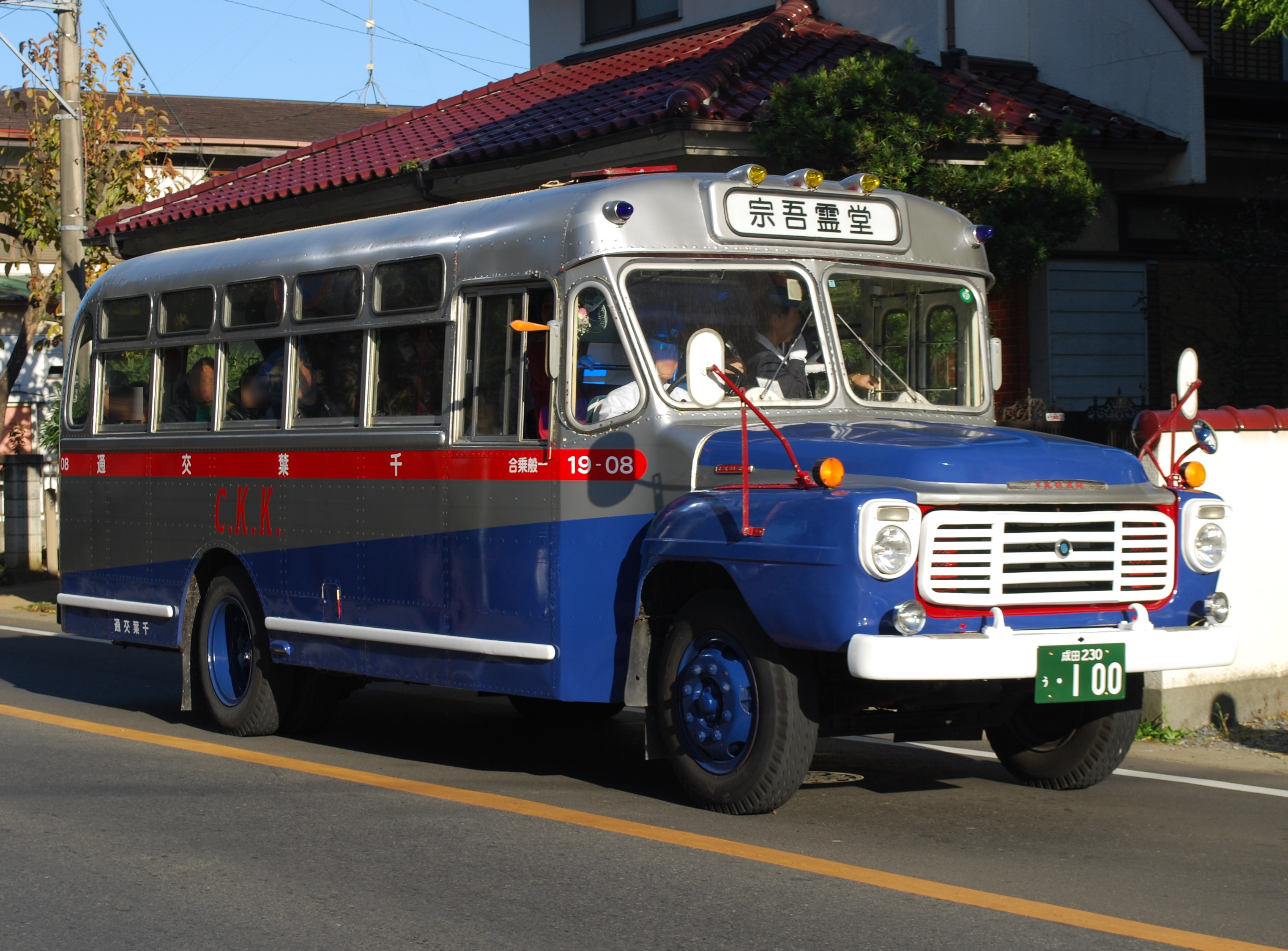 chiba-kotsu 100th anniversary memory bonnet bus,narita-city,japan